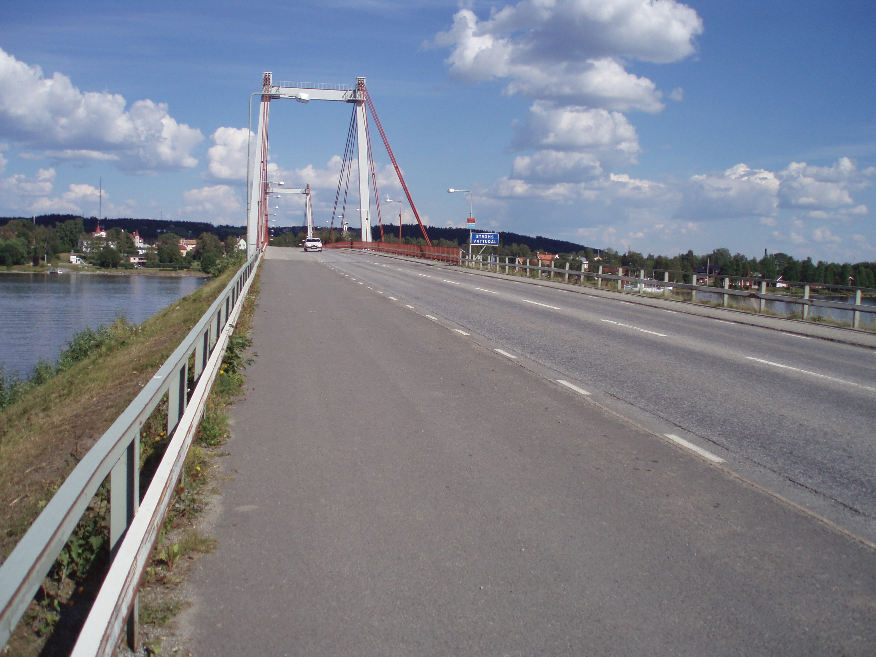 Strömsund bridge, Strömsund, Sweden. Photo taken in aug. 2006 by me - User:Cucumber